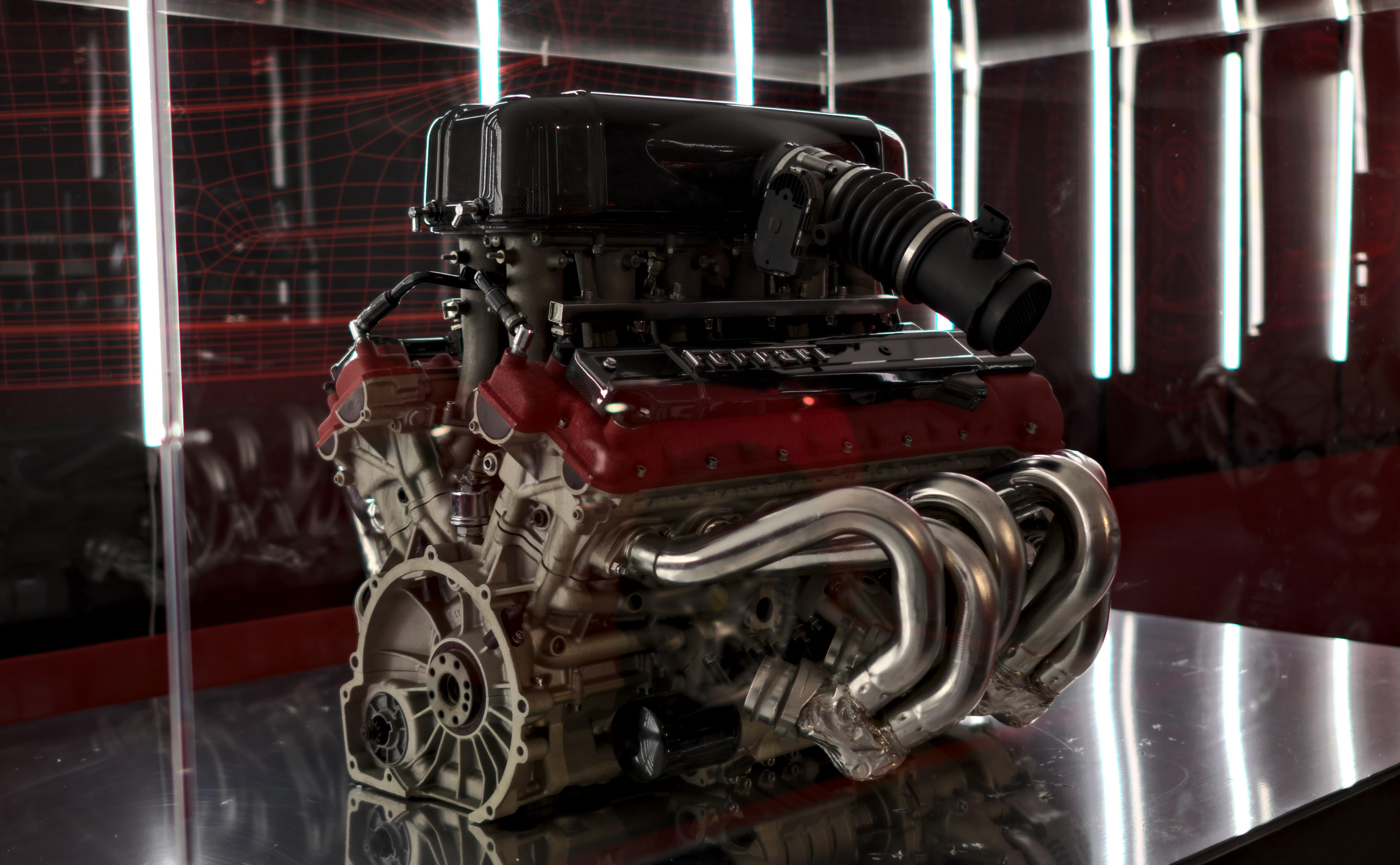 A side-angle view of the Ferrari F140B engine used in the Enzo Ferrari car.